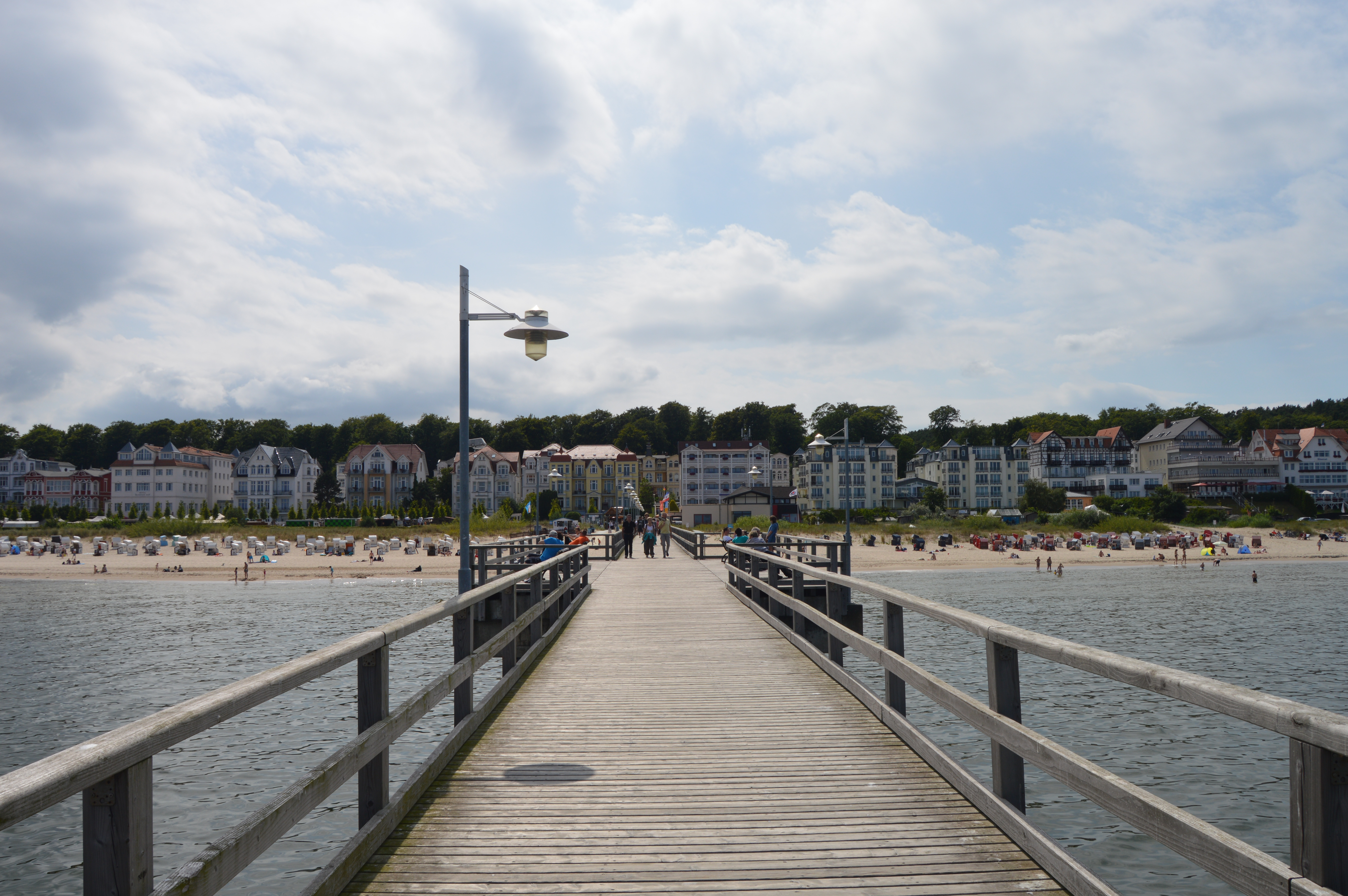 Pier in the resort town of Bansin.